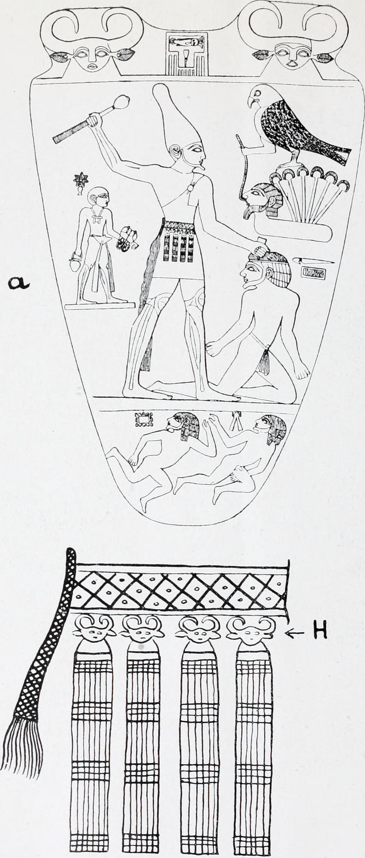 Title: The evolution of the dragon Year: 1919 (1910s) Authors: Smith, G. Elliot (Grafton Elliot), Sir, 1871-1937 Subjects: Dragons Mythology Rain gods -- Egypt Mythology, Egyptian Aphrodite (Greek deity) Incense Publisher: Manchester, The University press London, New York (etc.) Longmans, Green & company Text Appearing Before Image: Gardiner, The Tomb of Amenemhet, p. 112. ~ As it is still called in the Semitic languages. In the Egyptian PyramidTexts there is a reference to a new being formed by the vulva ofTefnut (Breasted). Many customs and beliefs of primitive peoples suggest that this correla-tion of the attributes of blood and shells went much deeper than the similarityof their use in burial ceremonies and for making necklaces and bracelets.The fact that the monthly effusion of blood in women ceased during preg-nancy seems to have given rise to the theory, that the new life of the childwds actually formed from the blood thus retained. The beliefs that grewup in explanation of the placenta form part of the system of interpretationof these phenomena : for the placenta was regarded as a mass of clottedblood (intimately related to the child which was supposed to be derivedfrom part of the same material) which harboured certain elements of thechilds mentality (because blood was the substance of consciousness). I Text Appearing After Image: Fig. i8.—(a) The Archaic Egyptian slate palette of Narmer showing, perhaps, THE earliest DESIGN OF HaTHOR (aT THE UPPER CORNERS OK THE PALETTe) ASA WOMAN WITH COWS HORNS AND EARS (COMPARE FLINDERS PeTRIE, ThE RoYAL Tombs of the First Dynasty, Part I, igoo, Plate XXVII, Fig. 71). The PHARAOH is wearing A BELT FROM WHICH ARE SUSPENDED FOUR COW-HEADEDHaTHOR FIGURES IN PLACE OF THE COWRY-AMULETS OF MORE PRIMITIVE PEOPLES. This affords corroboration of the view that Hathor assumed the func-tions ORIGINALLY ATTRIBUTED TO THE COWRY-SHELL. (b) The kings sporran, where Hathor-heads (H) take the place of the cowriesof the primitive girdle.